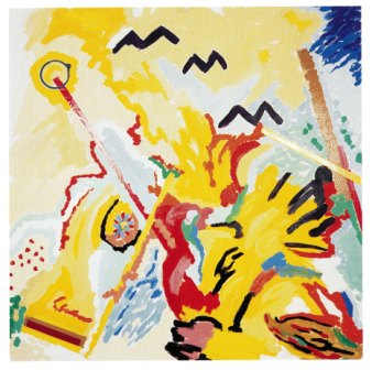 Joachim Lünenschloß work "Ohne Titel" (without title)